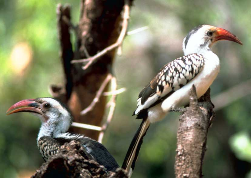 Immature (male?) and adult female Northern red-billed hornbills in Kenya Public domain from USFWA Title: Red-billed Hornbills Alternative Title: Tockus erythrorhynchus Subject: birds, species, Kenya, Africa